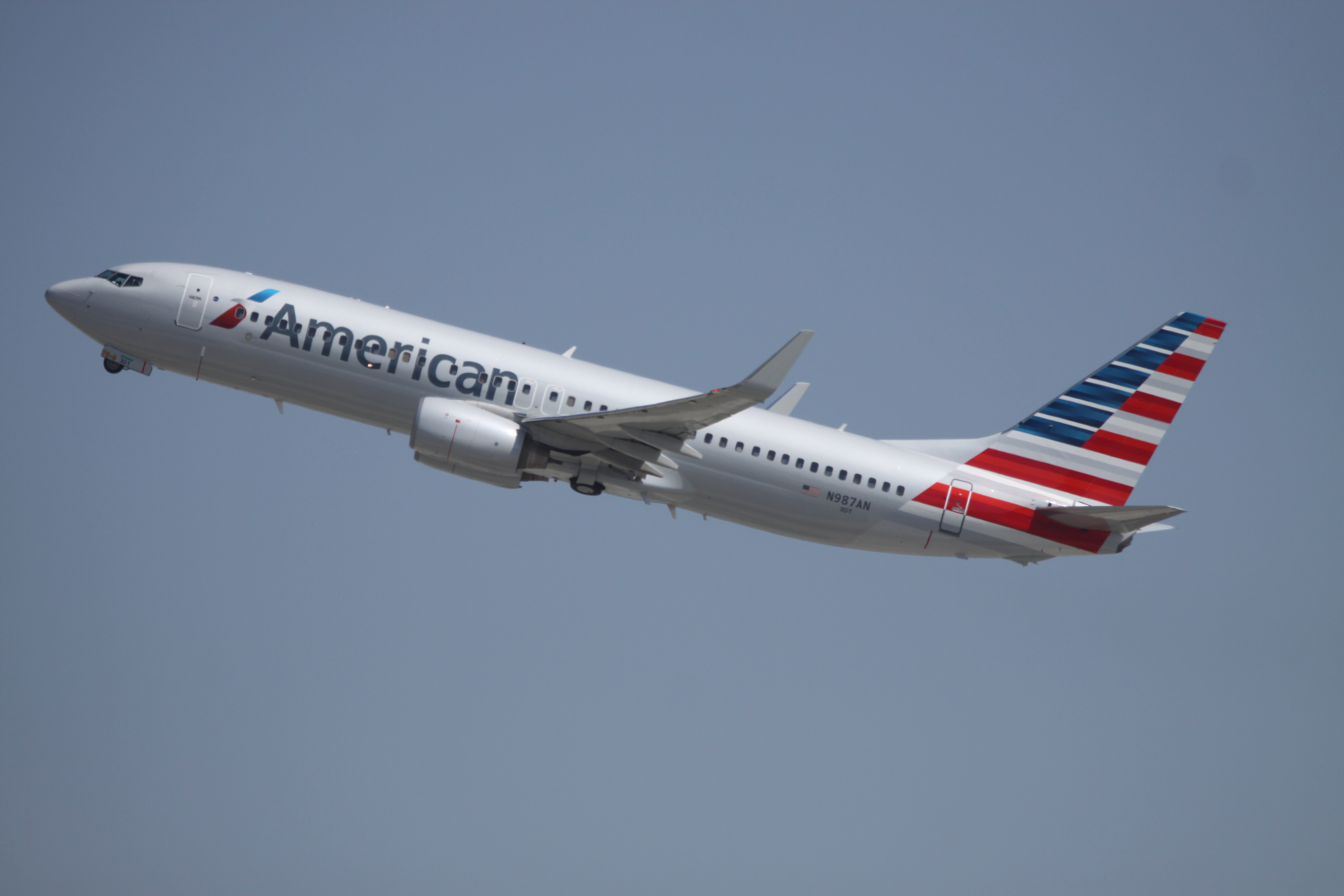 At Los Angeles International